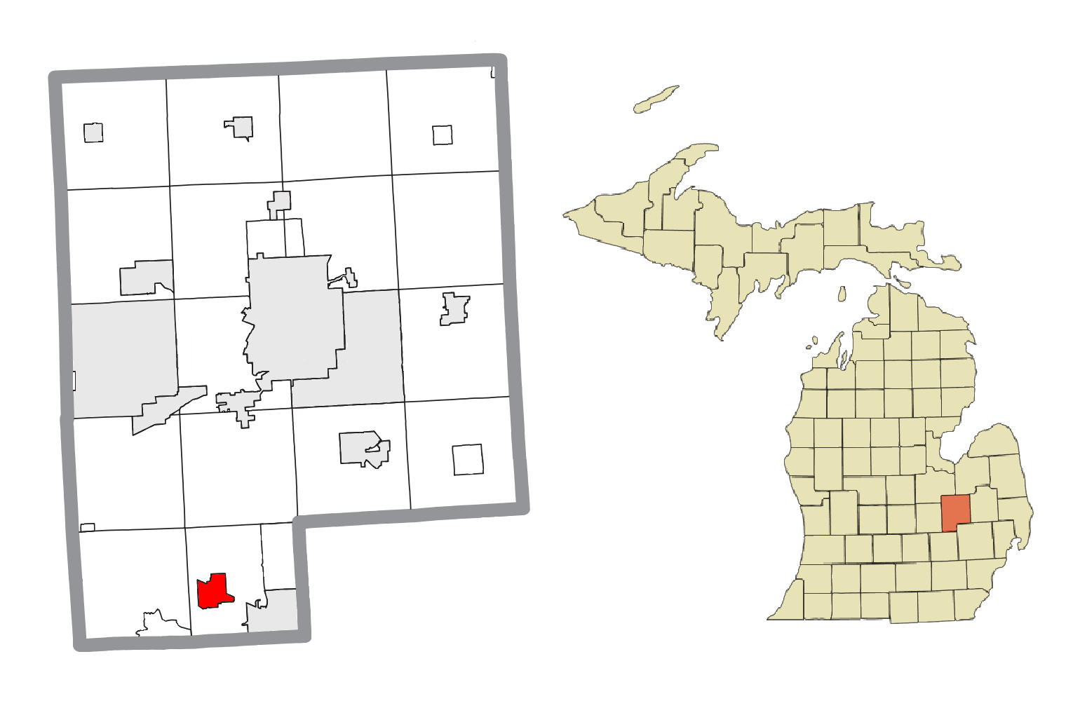 Linden, MI